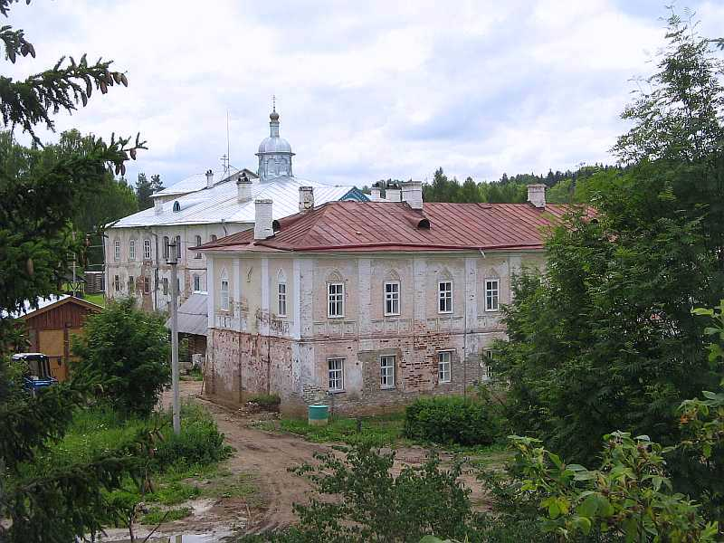 View of Pavlo-Obnorsky monastery in 2008